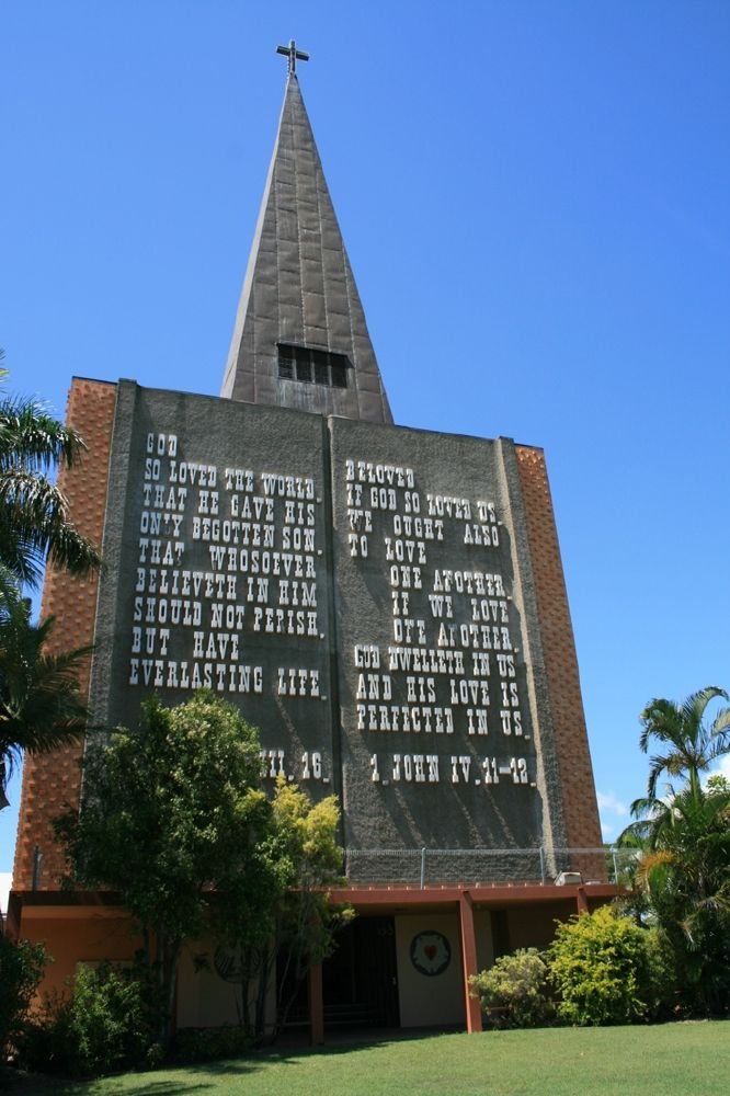 St John's Lutheran Church, Bundaberg (2010)